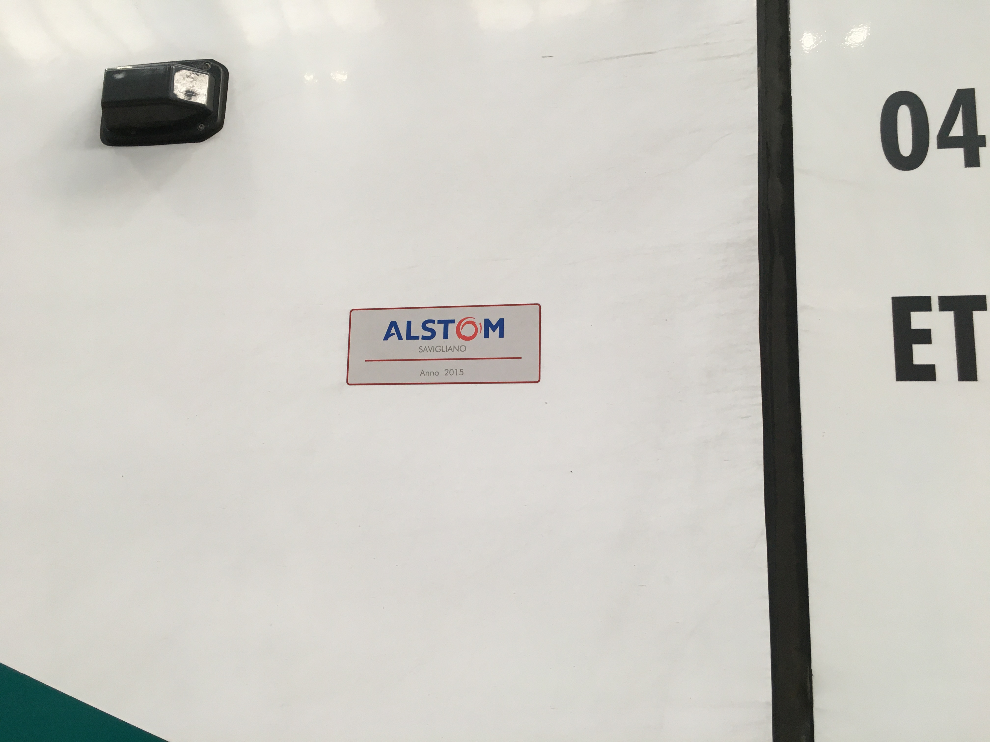 The Alstom logo at the Leonardo express train